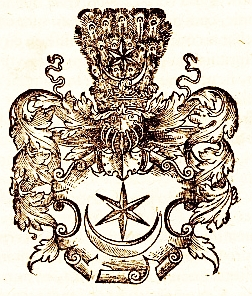 Coat of Arms Leliwa by Szymon Okolski, Orbis Polonum, 1641